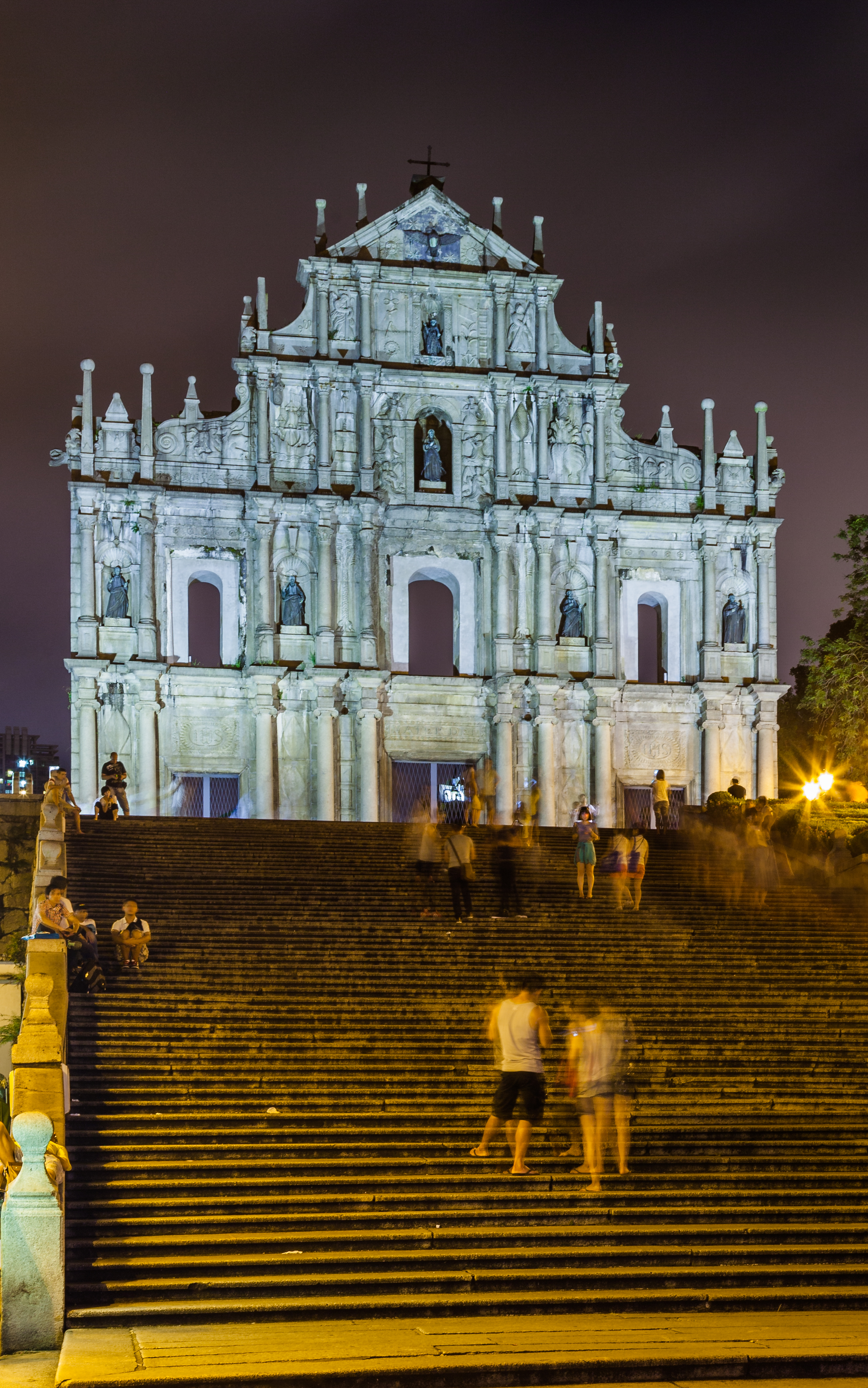 Remains of the Cathedral of Saint Paul, Macau